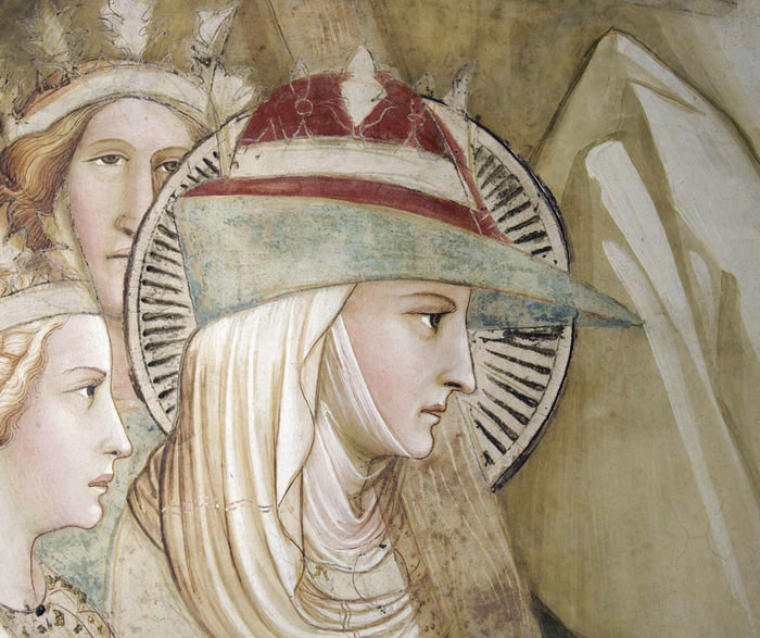 Detail of Saint Helena from Agnolo Gaddi's frescos at the Basilica of Santa Croce (often referred to as Discovery of the True Cross or Legend of the True Cross)